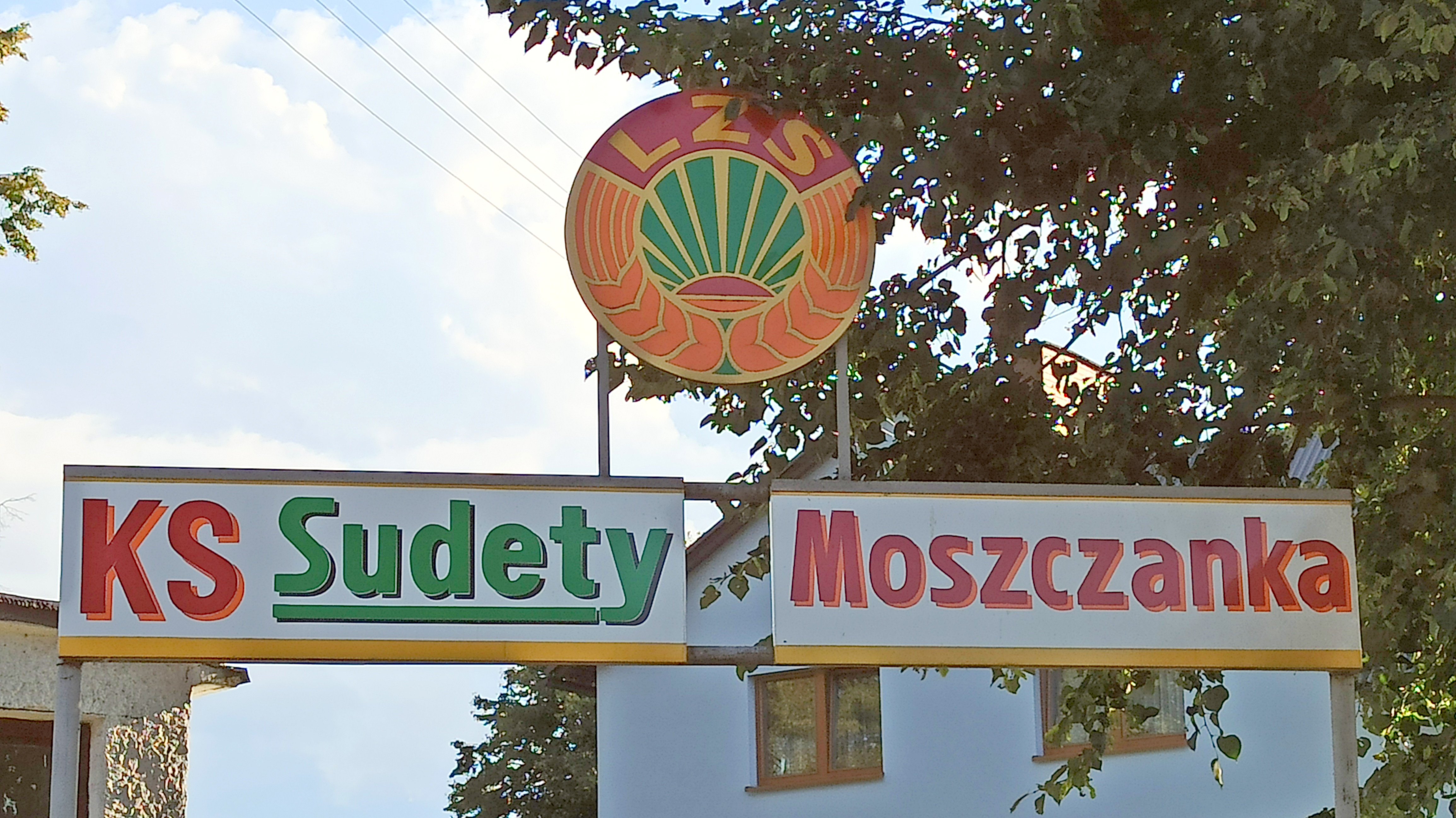 Moszczanka, Opole Voivodeship football pitch, Poland.